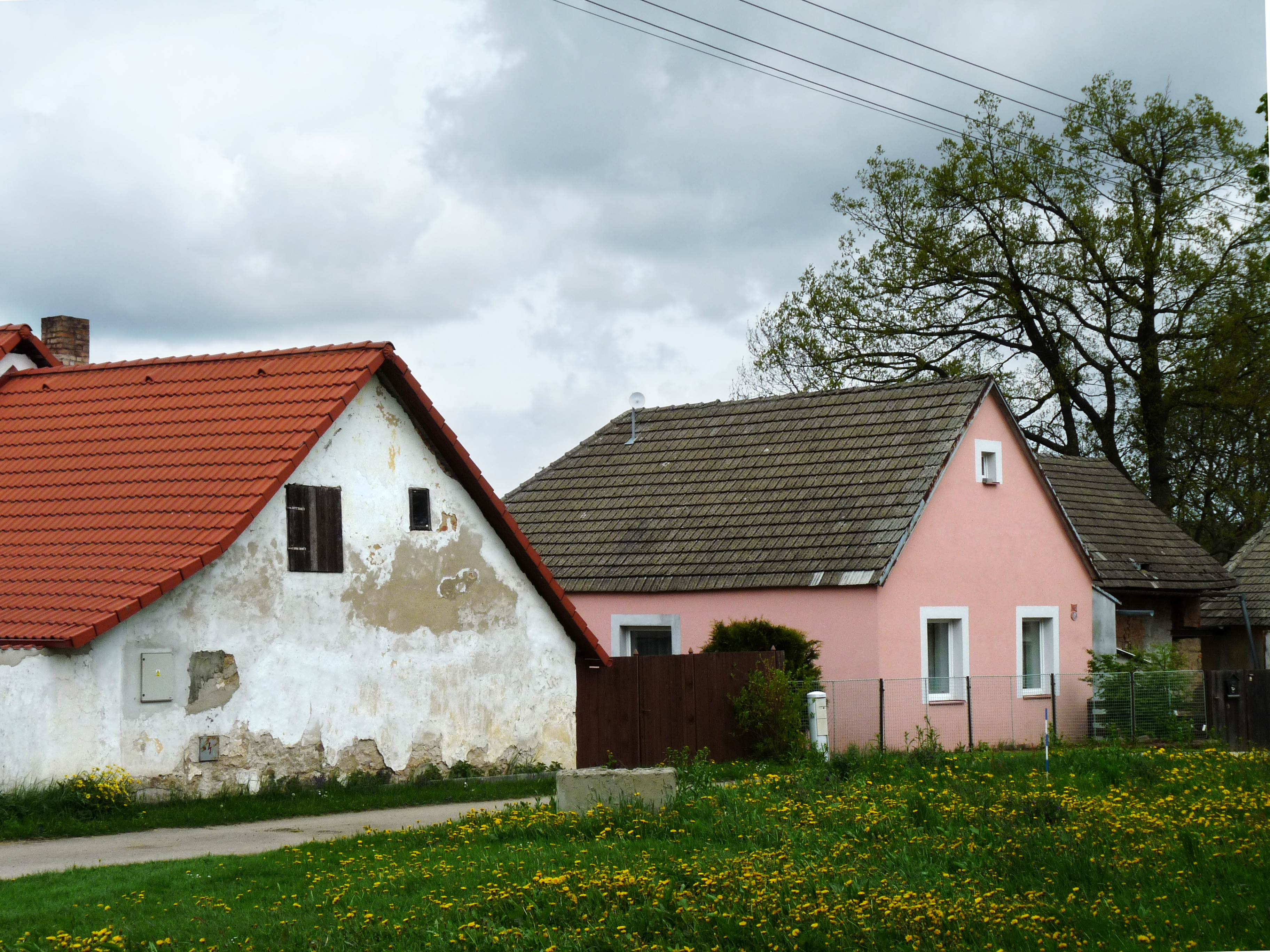 House No 31 in the village of Malý Jeníkov, Strmilov, Jindřichův Hradec District, South Bohemian Region, Czech Republic.